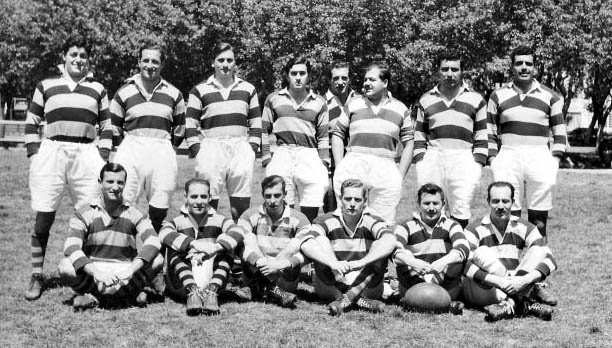 The Obras Sanitarias rugby team that won its first Torneo de la URBA championship.